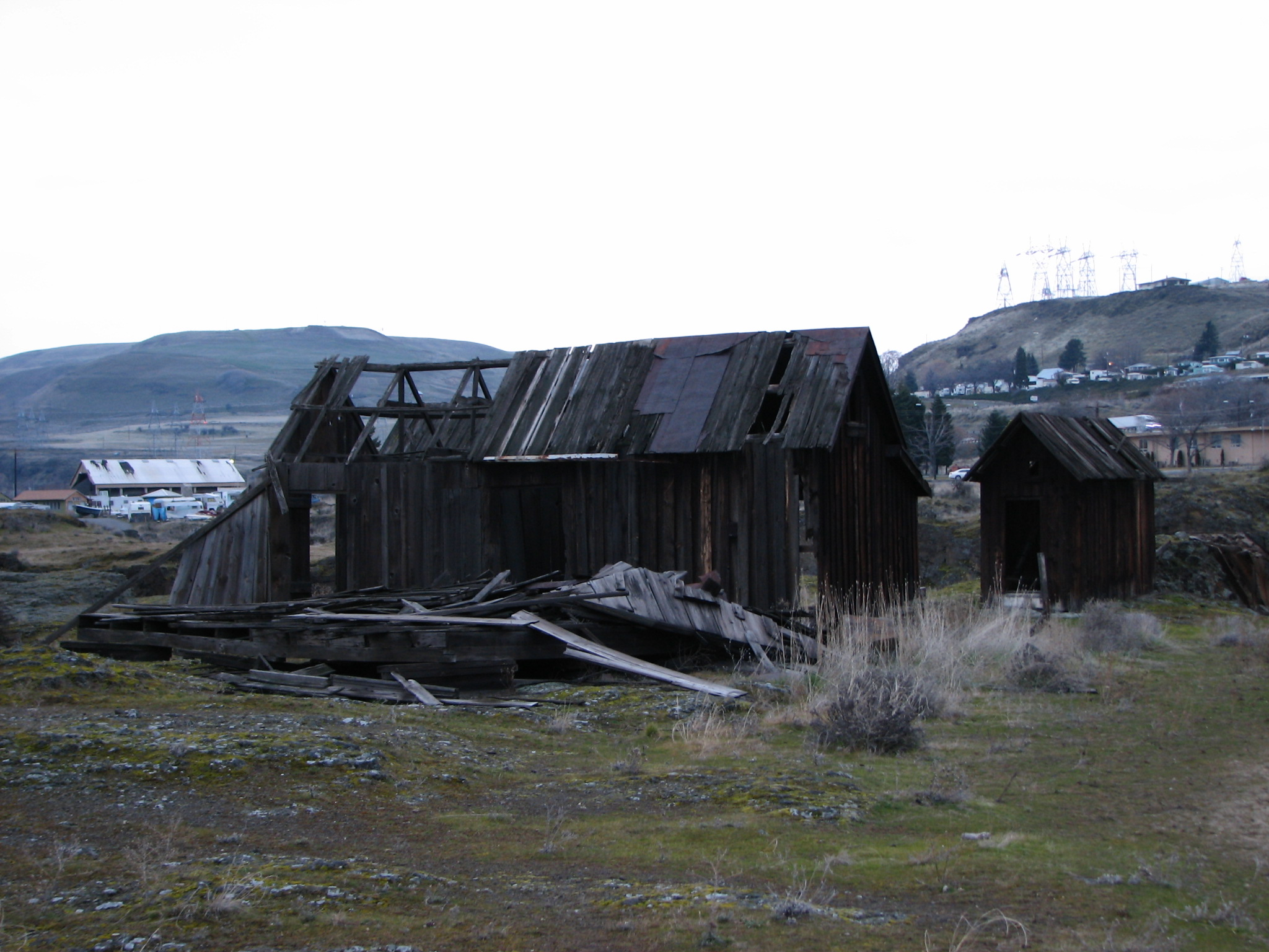 The historic Gulick Homestead in The Dalles, Oregon, United States, with the collapsed remains of the Indian Shaker church in the foreground. The homestead and church are listed on the US National Register of Historic Places (NRHP).